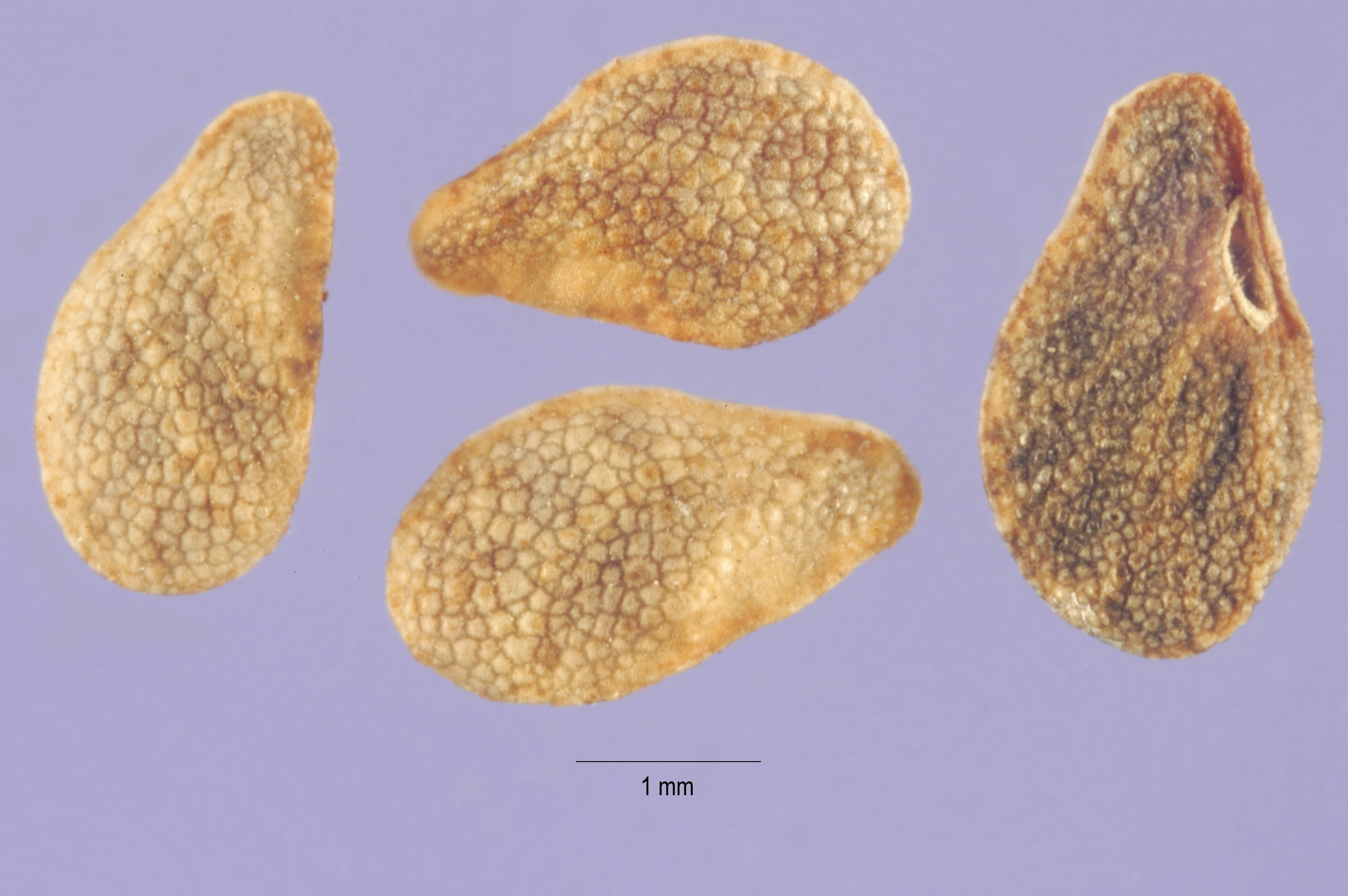 Asperugo procumbens seeds